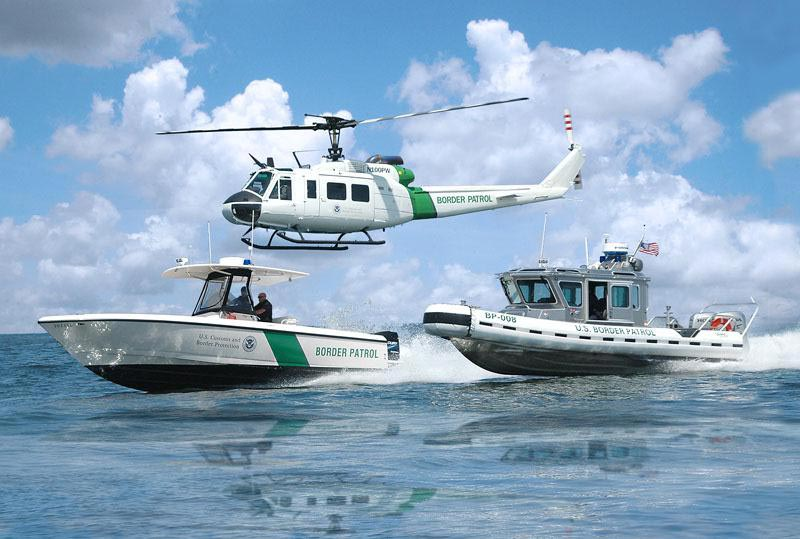 A Helicopter and two boats of the U.S. Customs and Border Protection (Border Patrol, Office of CBP Air and Marine) Original caption: CBP Air and Marine Intrepid and SafeBoat vessels accompanied on patrol by a UH-1 Huey near San Diego, CA.